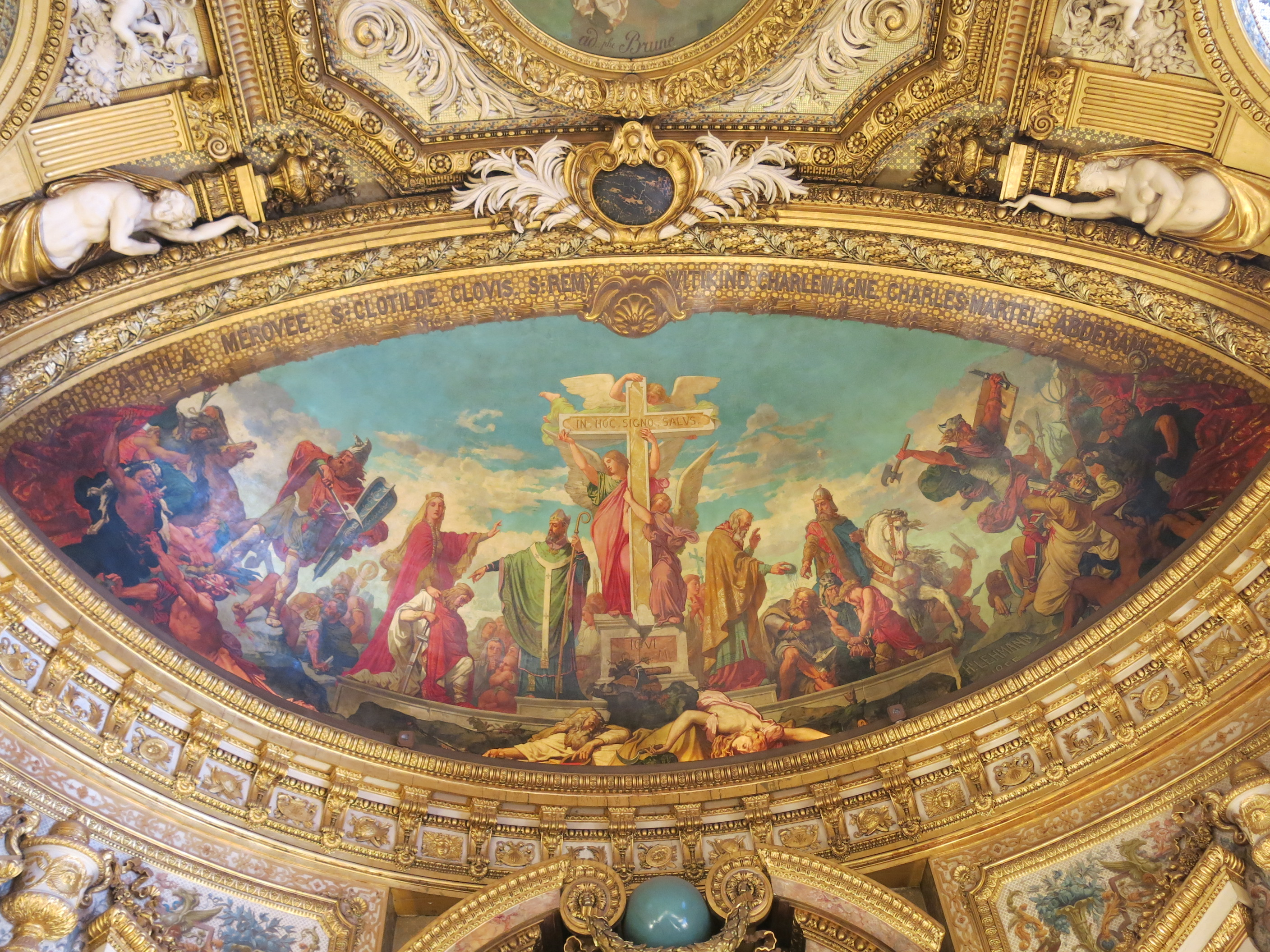 Western ceiling in the conference hall of the Palais du Luxembourg (Paris, France). With people of the history of France from the beginning to emperor Carolus Magnus. Henri Lehmann (1854).